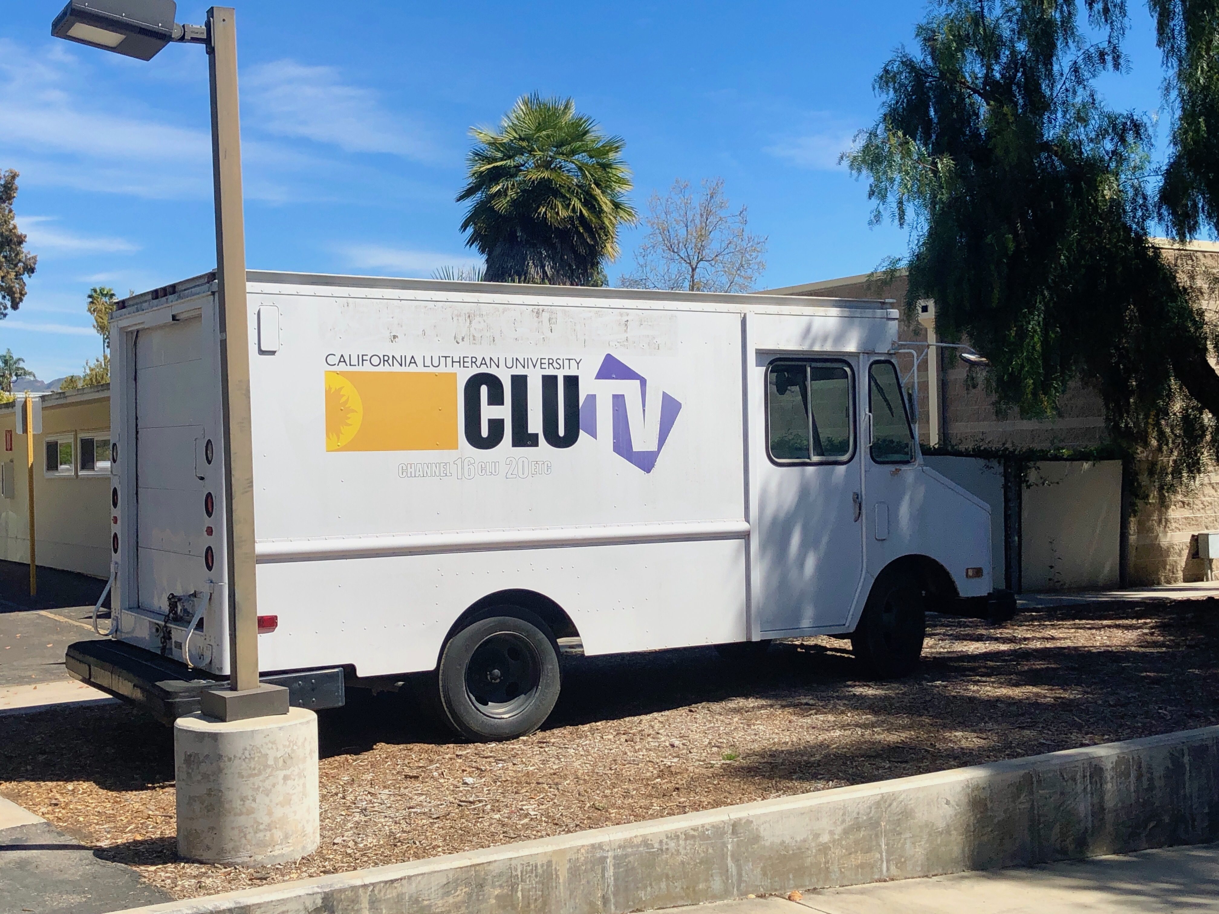 CLUTV news van at California Lutheran University